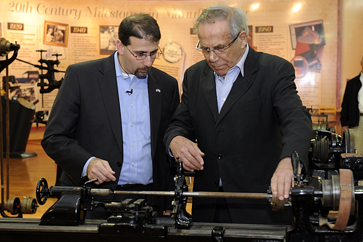 On December 12, 2011, United States Ambassador to Israel Shapiro visits the Tefen and Lavon Industrial Parks and the company ISCAR with Mr. Stef Wertheimer.